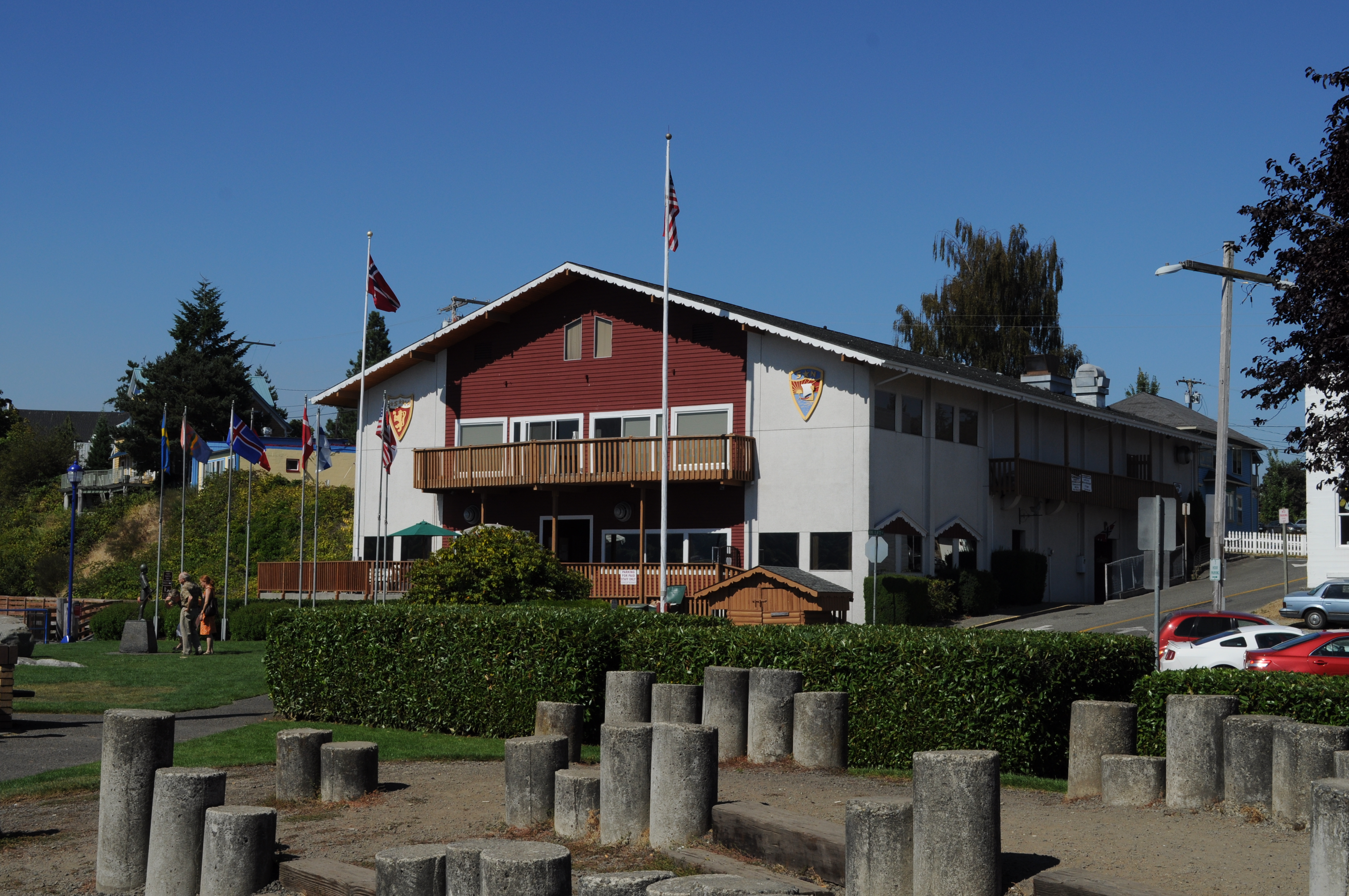 Sons of Norway building, Poulsbo, Washington, seen from the harbor side.